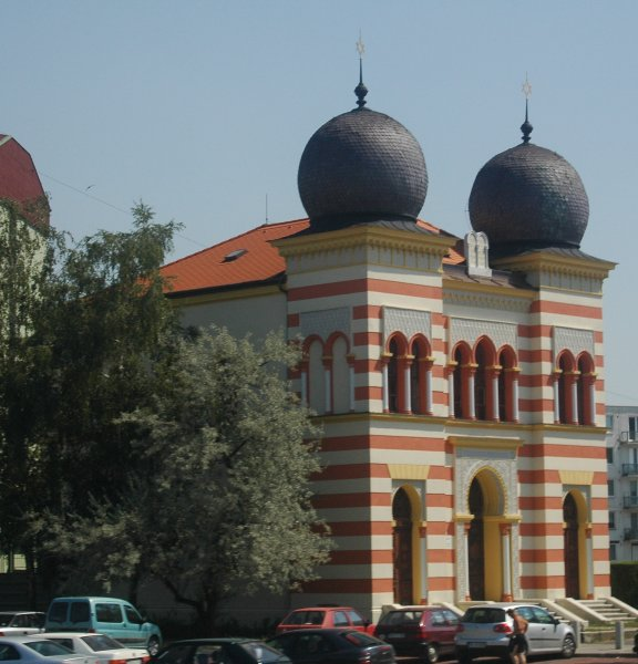 Malacky This medium shows the protected monument with the number 106-10733/0 in the Slovak Republic.